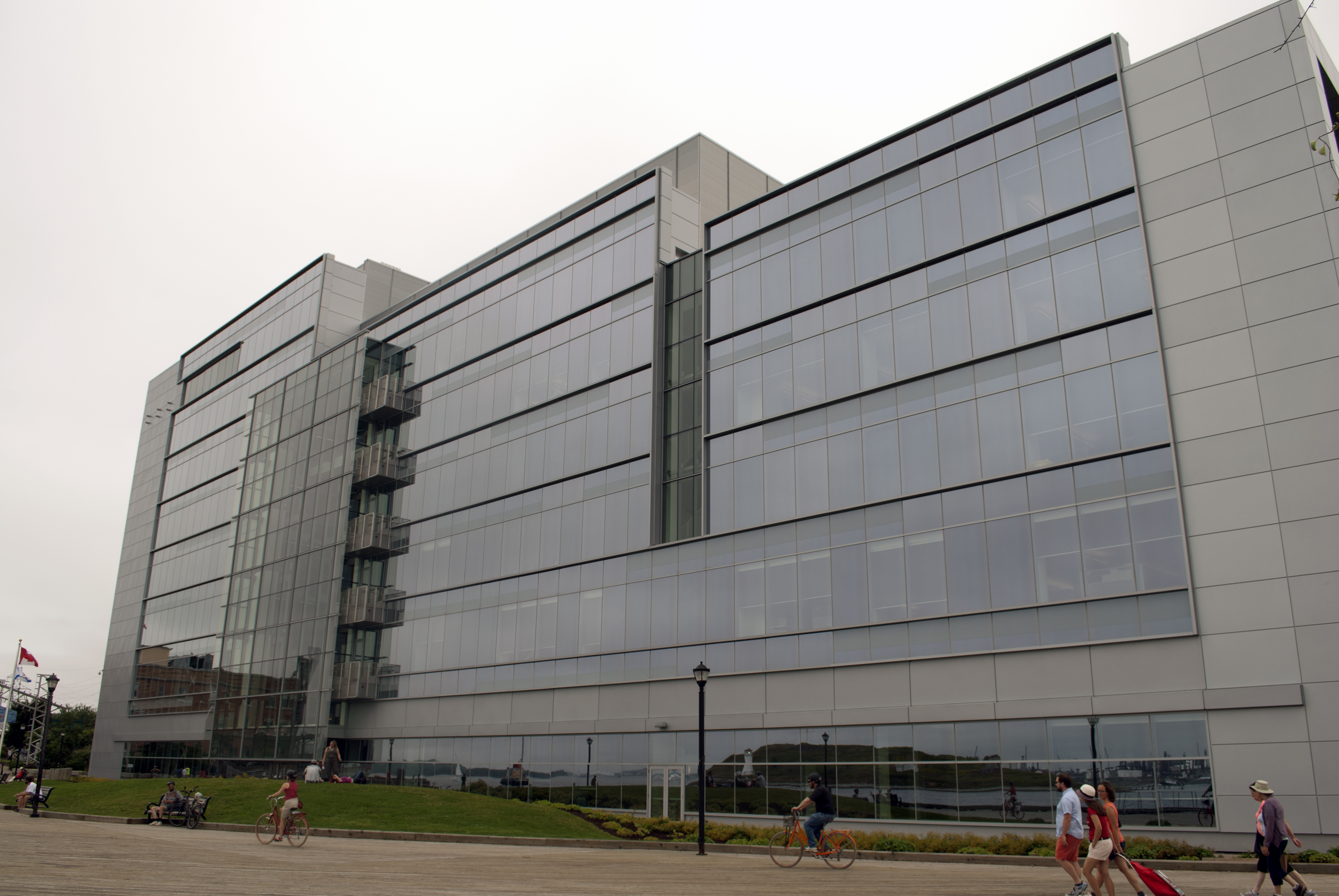 Shot from the board walk looking south west.